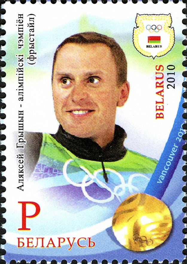 Aleksei Grishin - Alexei Grishin - Olympic gold medalist XXI Olympic Winter Games in Vancouver (freestyle)